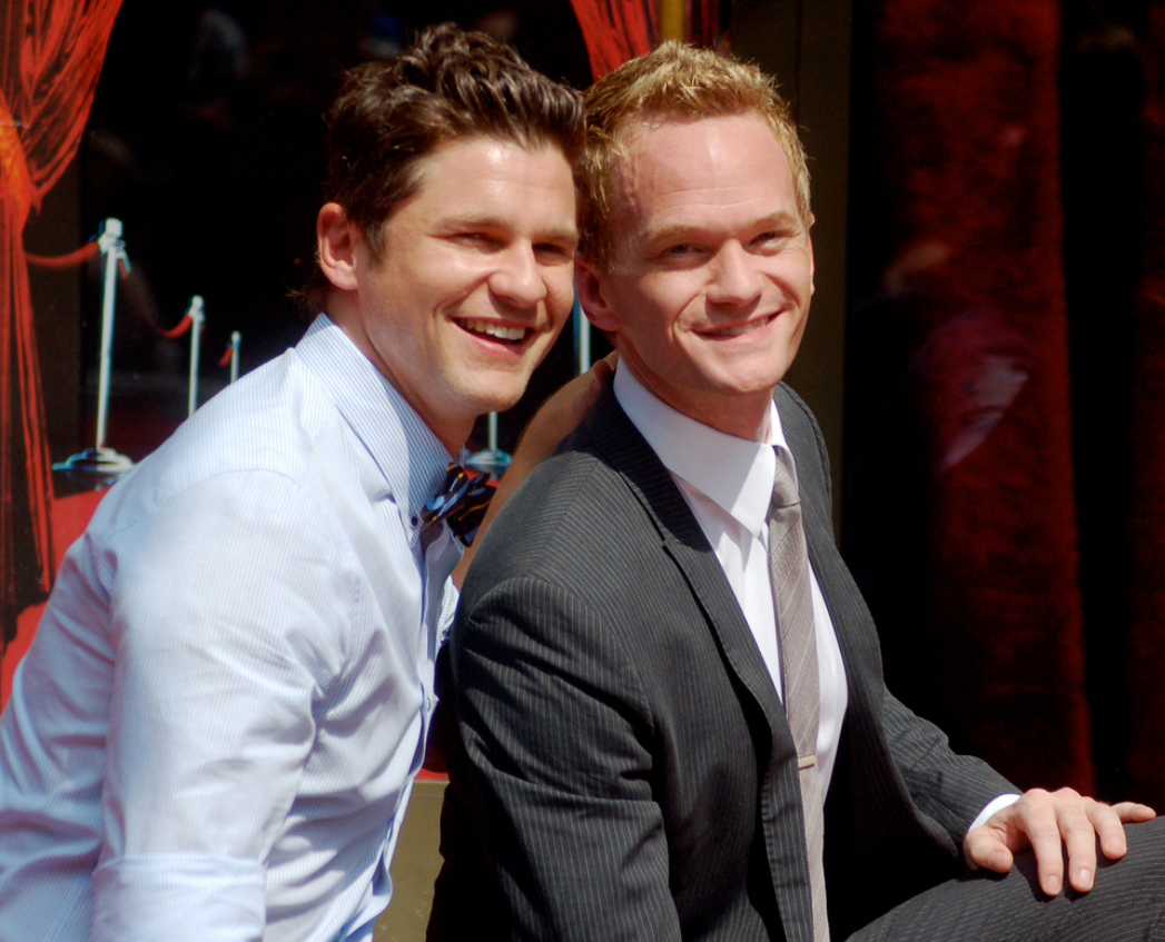 David Burtka and Neil Patrick Harris at a ceremony for Harris to receive a star on the Hollywood Walk of Fame in September 2011.